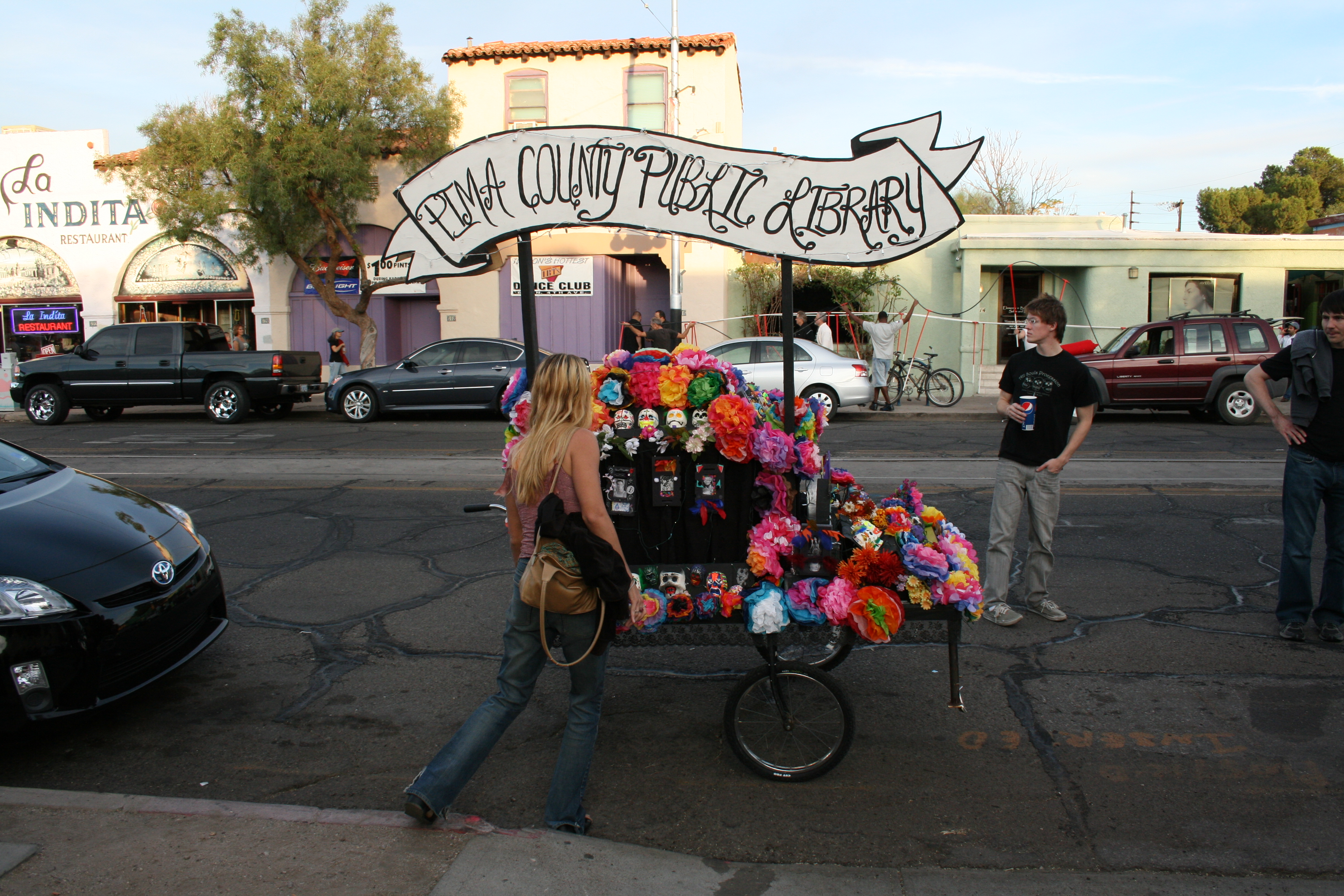 TPPL Day of Dead float, 2009